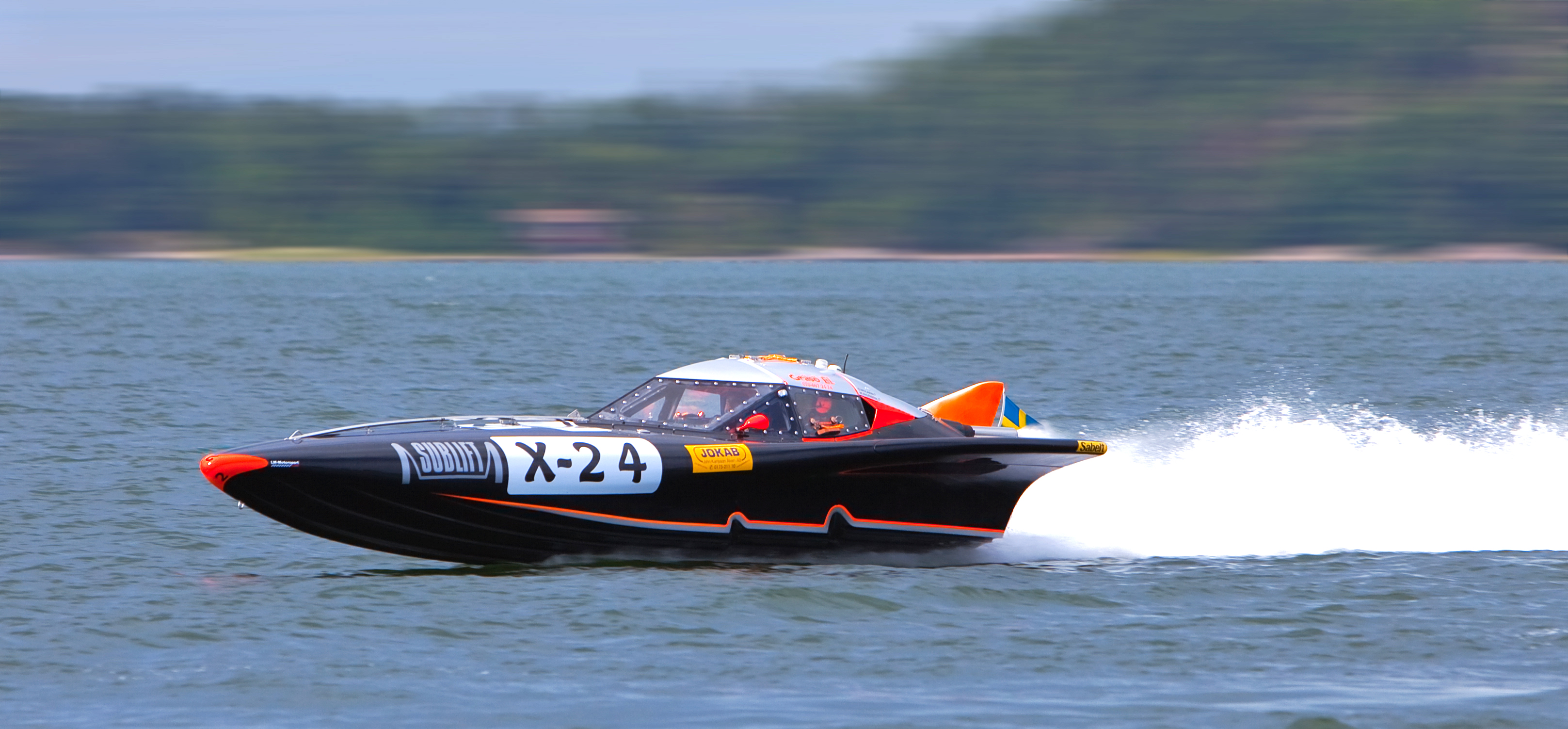 Roslagsloppet 2010. This delta wing Volvo hull looked very stable. When the nose lifts, the rear wing lifts the tail which keeps the flight level and ultimately brings the craft back down on the water again.